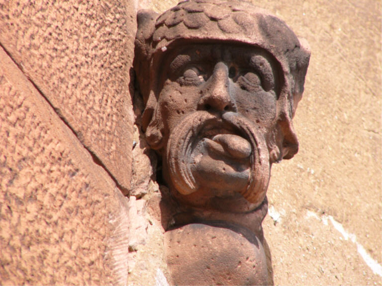 Breuberg Castle - figure at the storefront